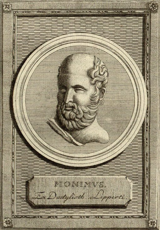 Ancient Greek philosopher Monimus. Originally from the book Gallerie der alten Griechen und Römer sammt einer kurzen Geschichte ihres Lebens. Band 1: Philosophen by Georg Wilhelm Zapf, published in Augsburg by Gottlieb Friedrich Riedel in 1781.